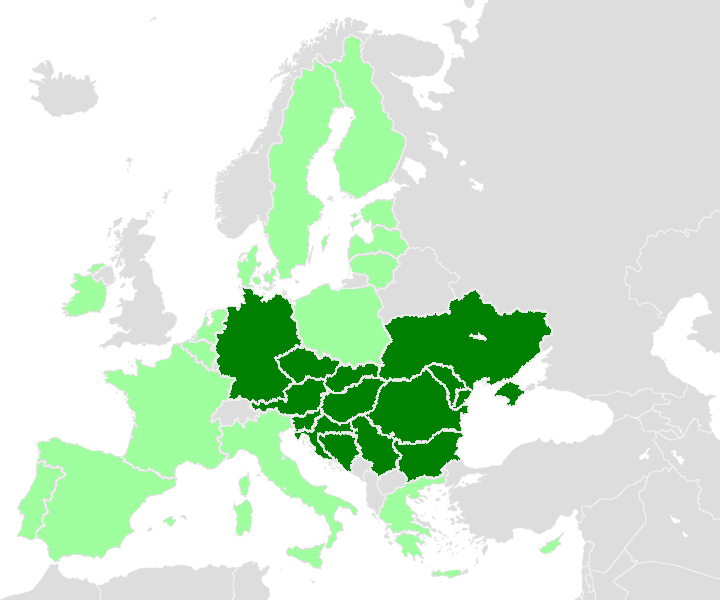 Map of the associates of the International Commission for the Protection of the Danube River.